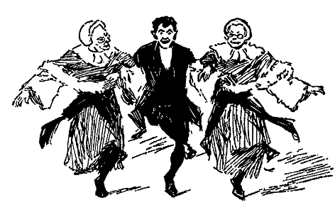 Scaphio, Phantis and Tarara concoct a "private plot" in Act II. Image taken from , which contains copyright-free clipart.